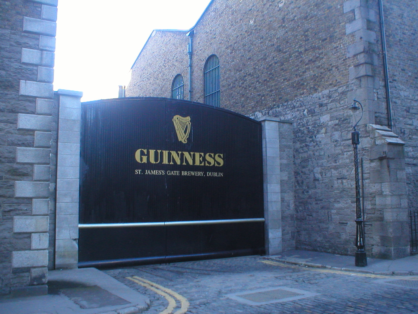 St James Gate Brewery, Dublin